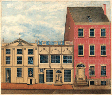 New York, Fulton Street 1819